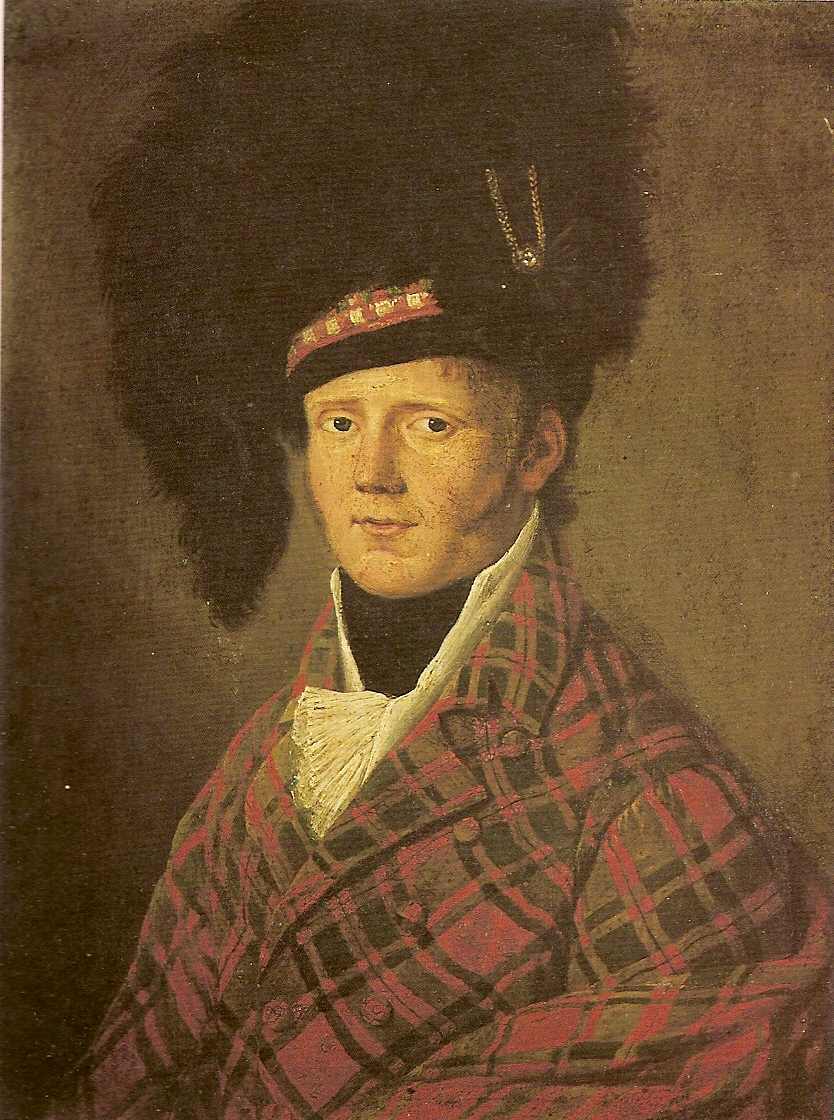 Lieutenant John Mackenzie (1794-1871) of Terrebonne, Quebec, Sohn von Roderick Mackenzie